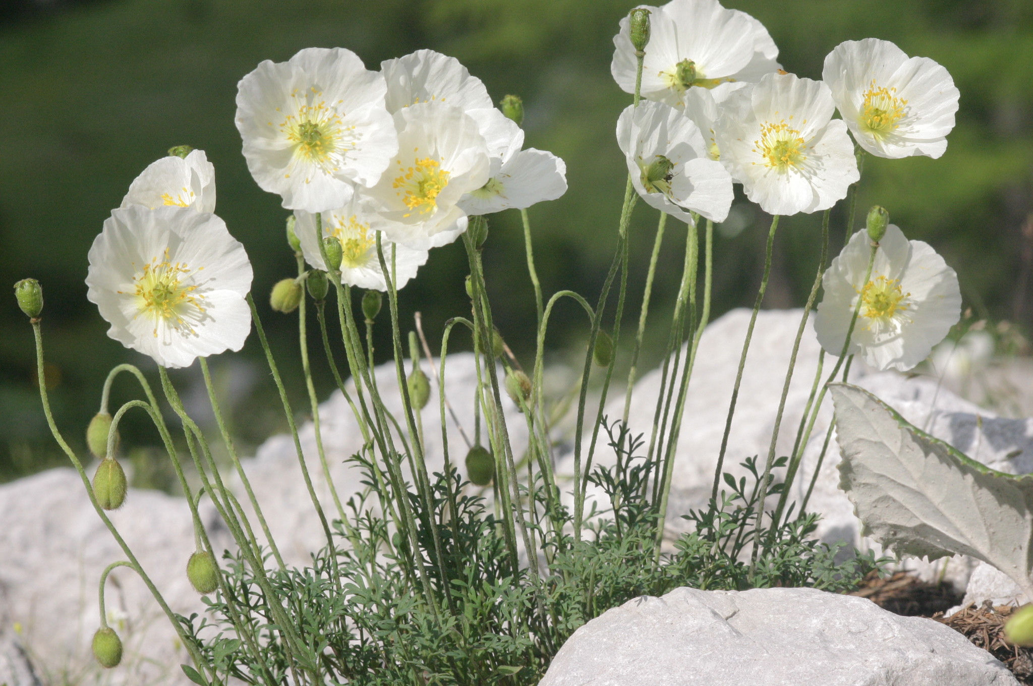 Papaver alpinum subsp. alpinum s. str.